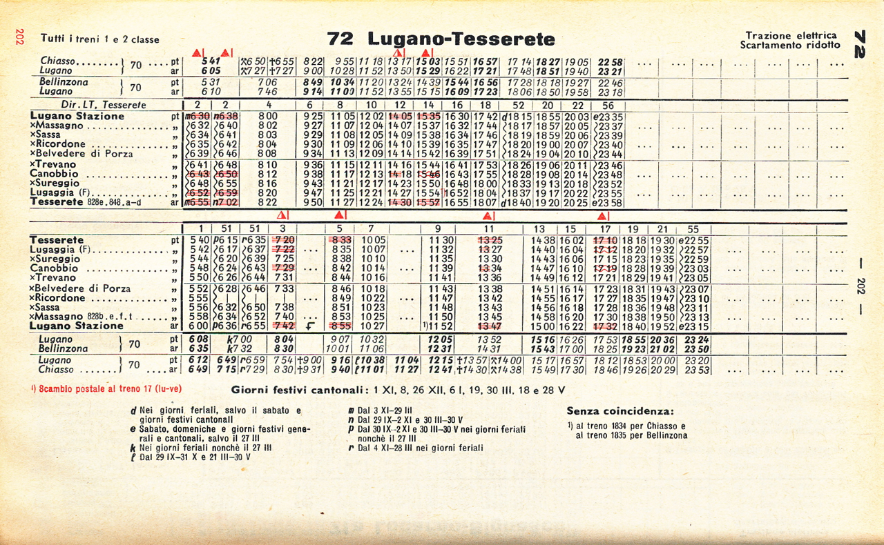 Timetable (mail edition) of the Lugano-Tesserete railway, winter 1963/1964.